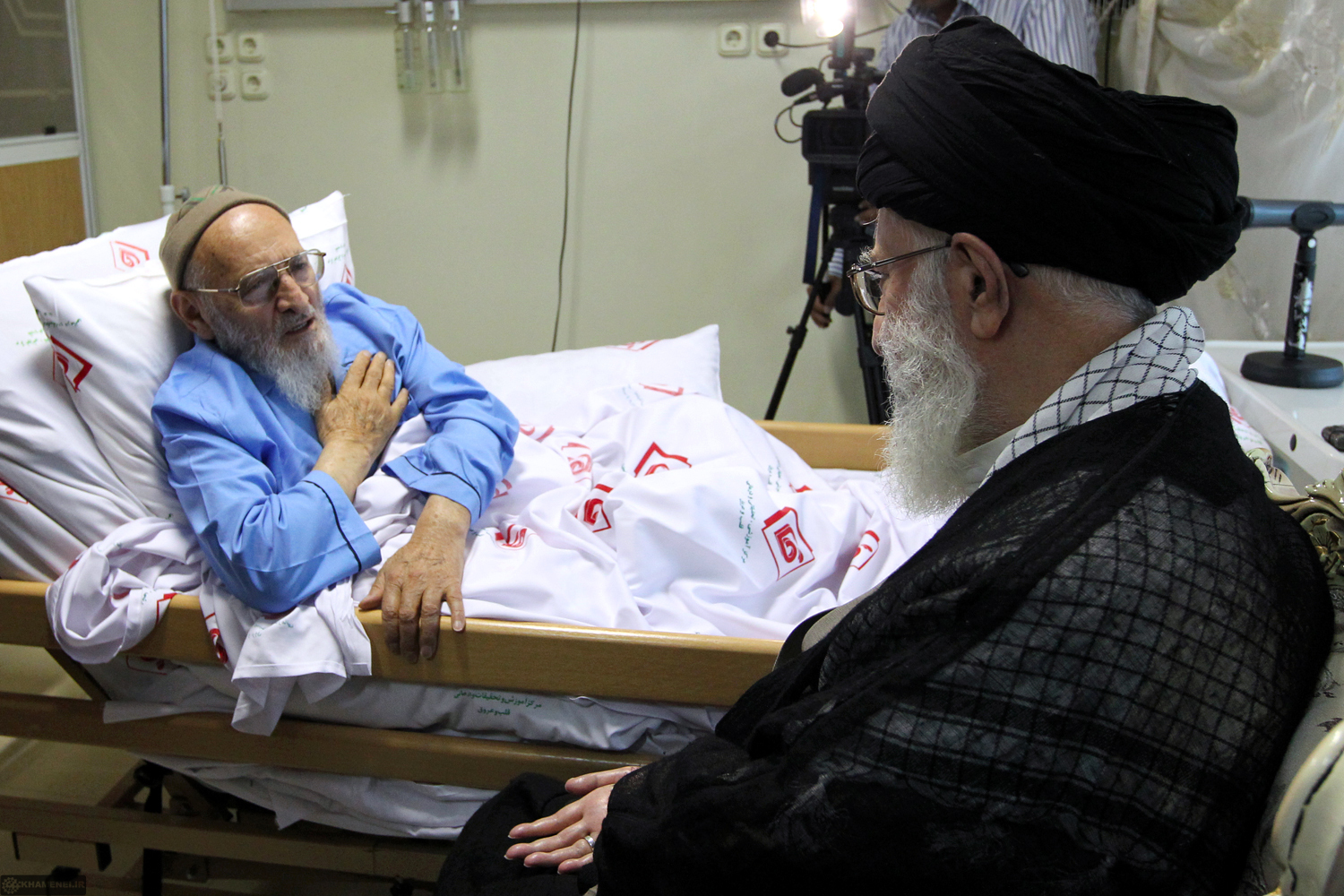 Ayatollah Seyyed Ali Khamenei visiting Ayatollah Hassan Hassanzadeh Amoli in Hospital